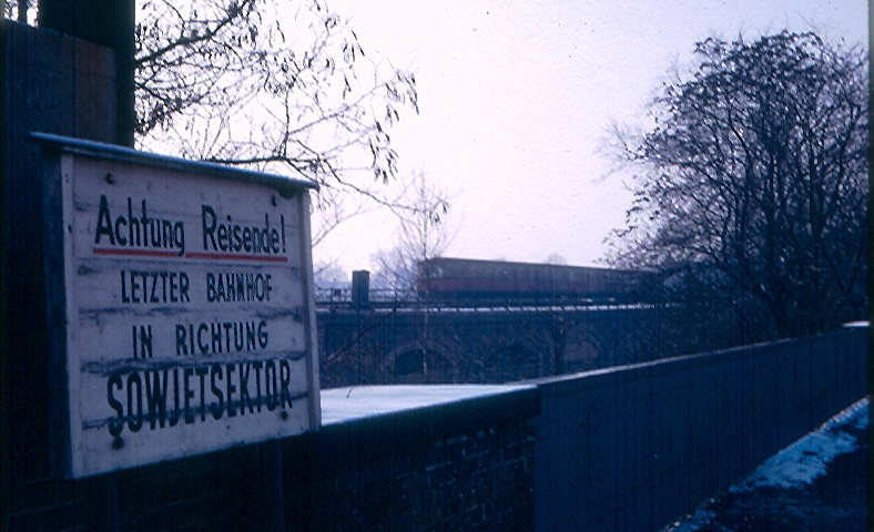 Photo by R. W. Rynerson, 1970, shows warning sign alerting West Berlin passengers that the next stop eastbound from Lehrter S-Bahn station is in the Soviet Sector of the city.